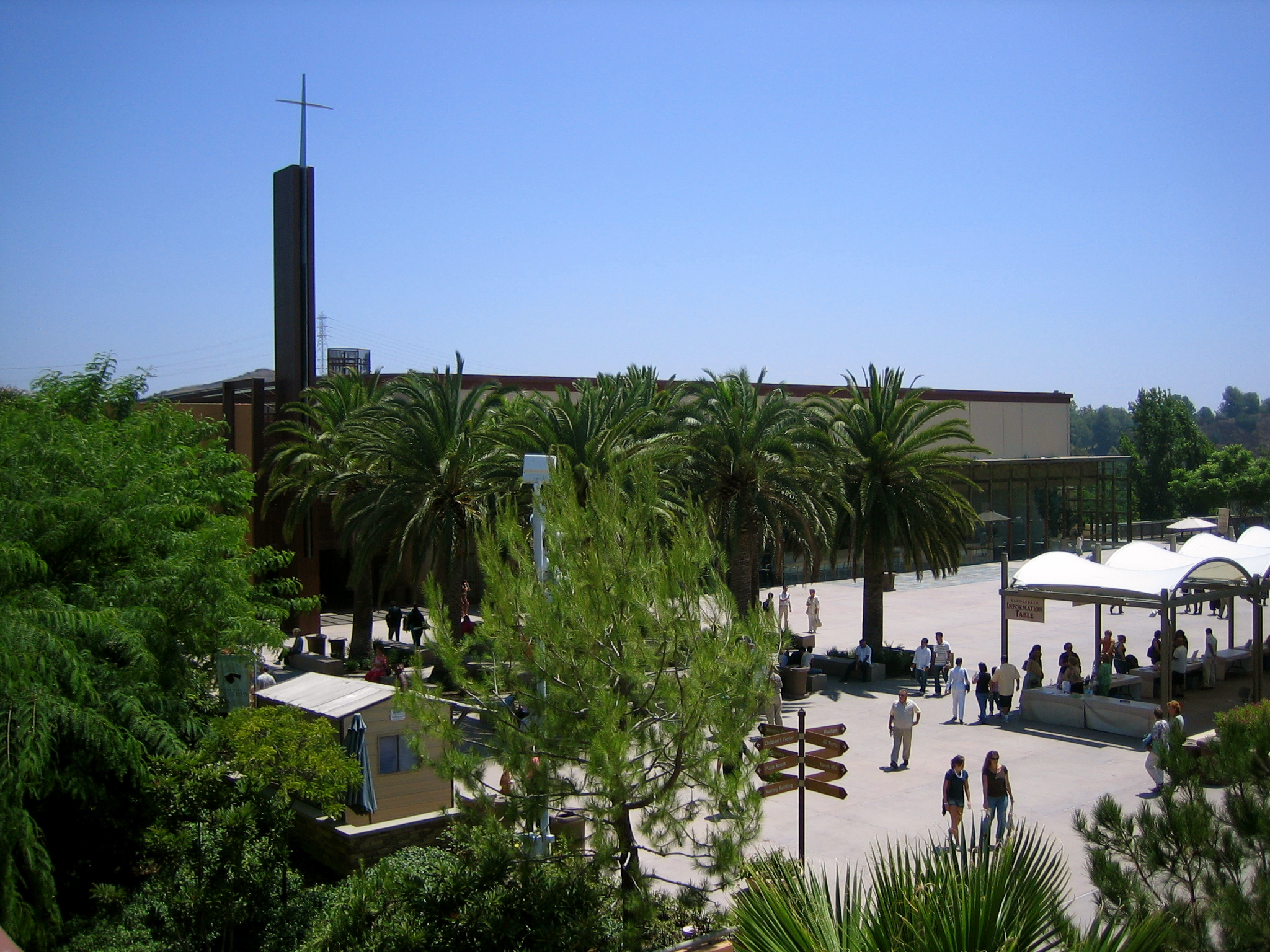 Saddleback church Lake Forest, worship center.